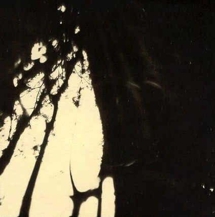 One of the four Sonderkommando photographs taken by an inmate inside Auschwitz, August 1944, and smuggled out of the camp by the Polish underground. This is photograph number 283 of four photographs (#280–283). See Category:Auschwitz resistance photos. The other three images in the series were published in Poland in the 1950s, and are in the public domain, but it appears that this image was not found until later. Date of first publication not known.